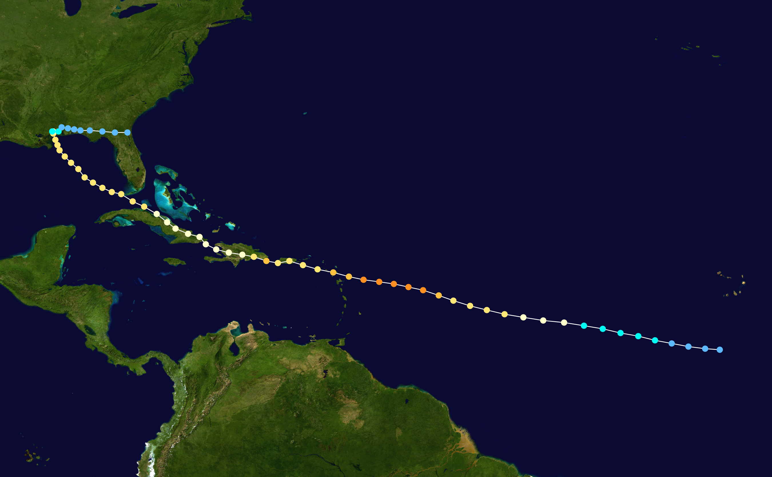 Track map of Hurricane Georges of the 1998 Atlantic hurricane season. The points show the location of the storm at 6-hour intervals. The colour represents the storm's maximum sustained wind speeds as classified in the Saffir–Simpson scale (see below), and the shape of the data points represent the nature of the storm, according to the legend below. Saffir–Simpson scale Tropical depression≤38 mph≤62 km/h Category 3111–129 mph178–208 km/h Tropical storm39–73 mph63–118 km/h Category 4130–156 mph209–251 km/h Category 174–95 mph119–153 km/h Category 5≥157 mph≥252 km/h Category 296–110 mph154–177 km/h Unknown Storm type Tropical cyclone Subtropical cyclone Extratropical cyclone / Remnant low / Tropical disturbance / Monsoon depression